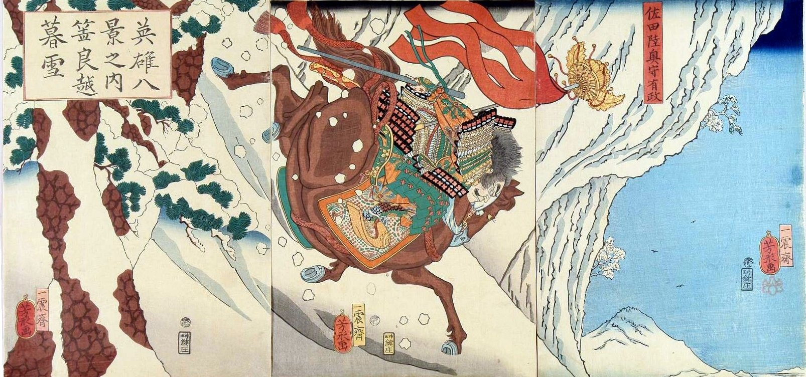 An ukiyo-e of Sassa Narimasa goes across the Japan Alps